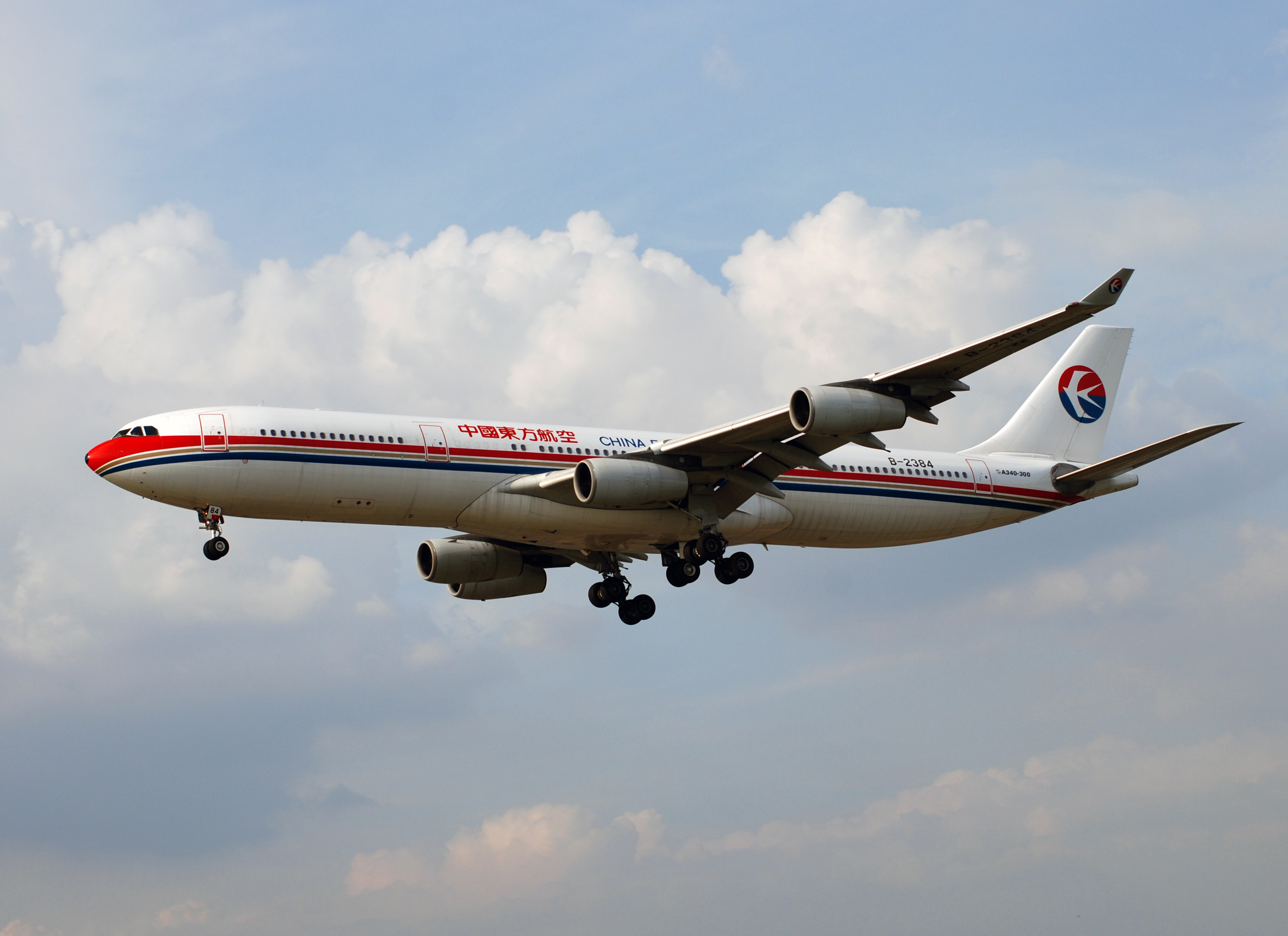 Myrtle Avenue,July 2008